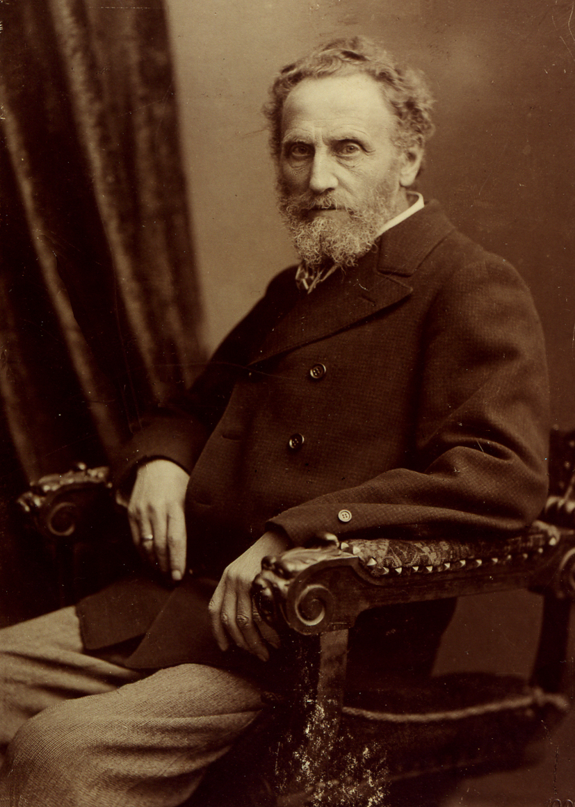 Portrait of the artist Jacob Ungerer by Karl Lützel